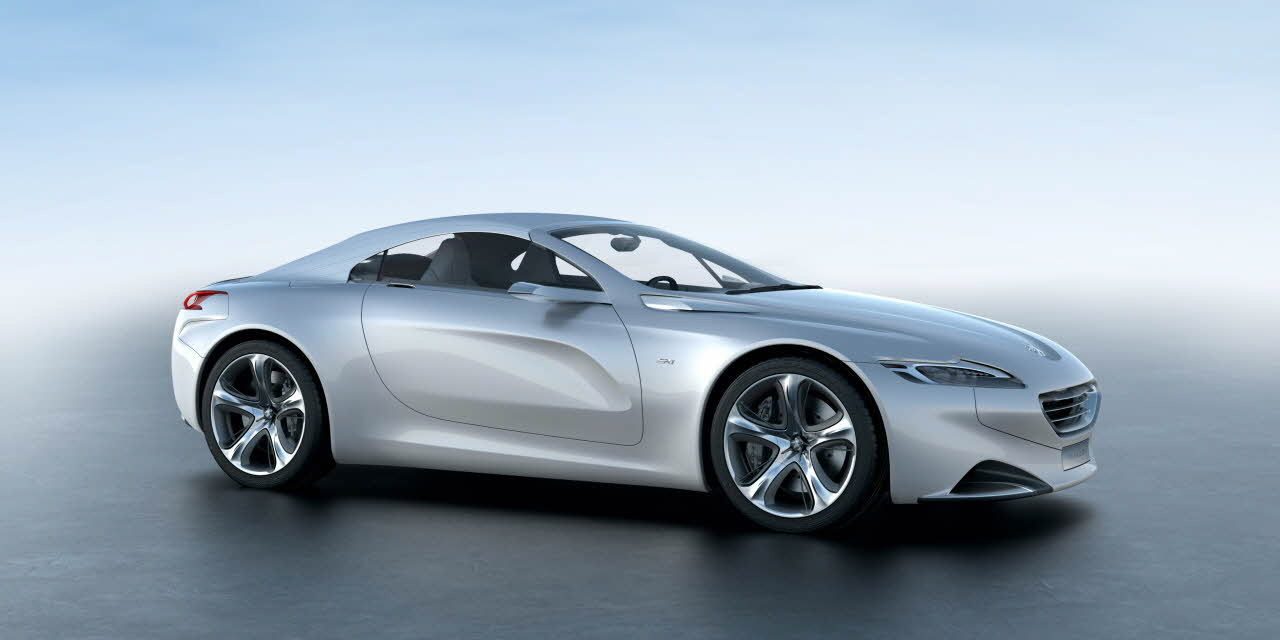 Peugeot SR1 - right side.